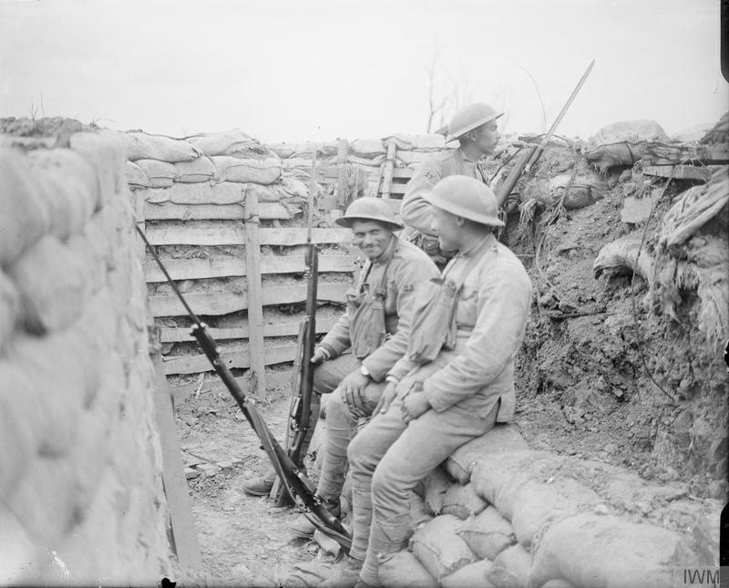 The Portuguese Expeditionary Corps on the Western Front, 1917-1918 Sentry in the Portuguese front line near Neuve Chapelle, 24 June 1917.